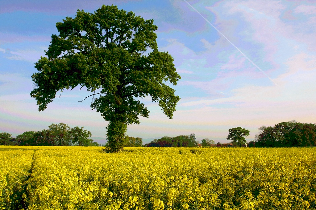 Tree in rape field, Collonge-Bellerive, Geneva, Switzerland